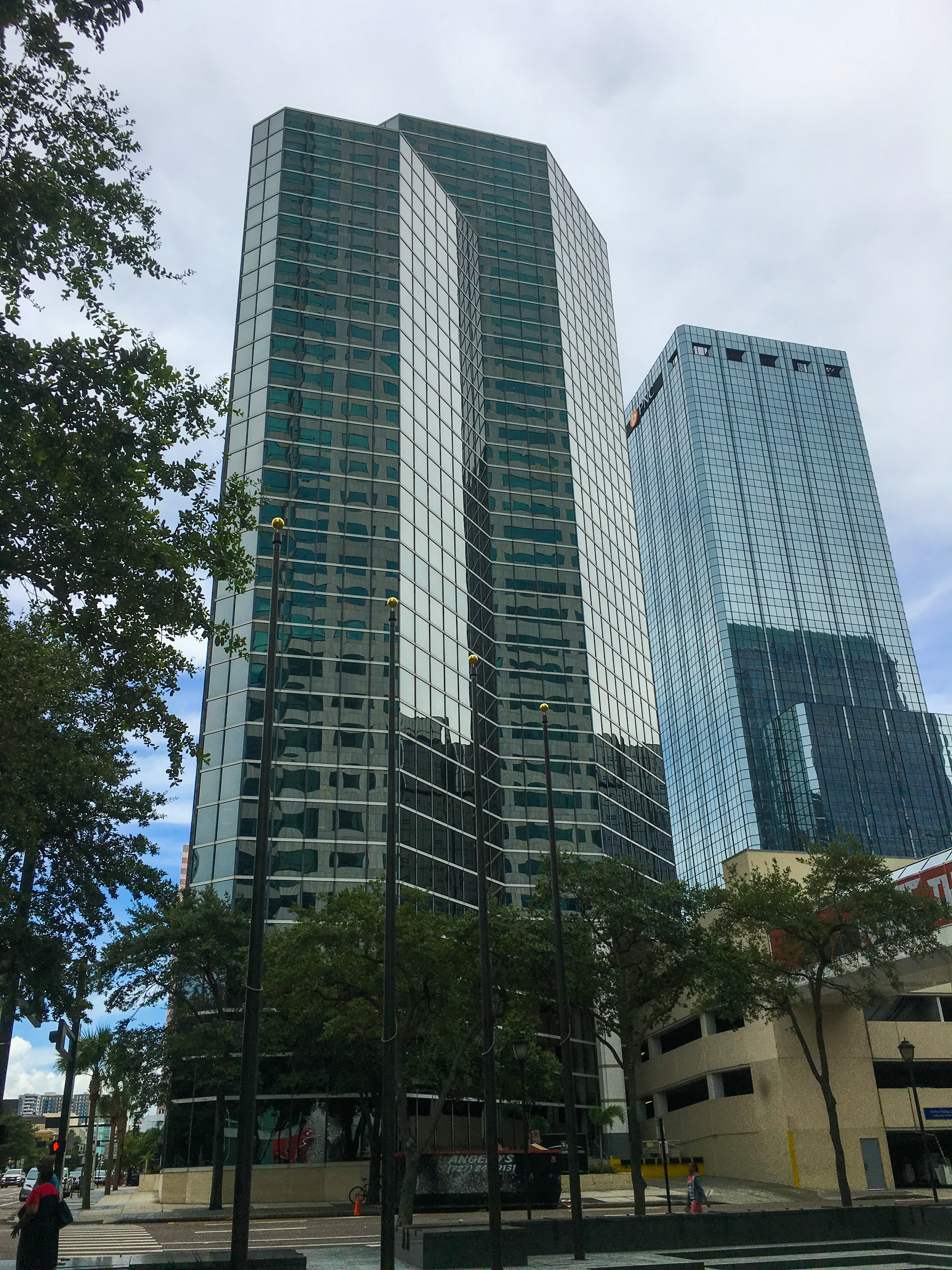 Fifth Third Center (Tampa)